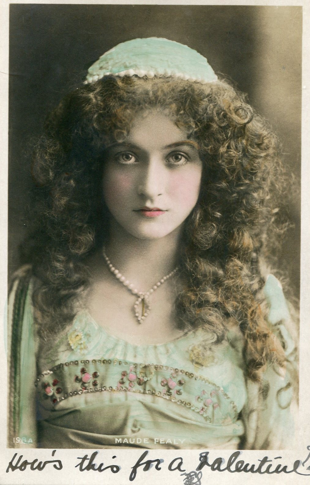 Postcard of Maude Fealy as Juliet in Romeo and Juliet